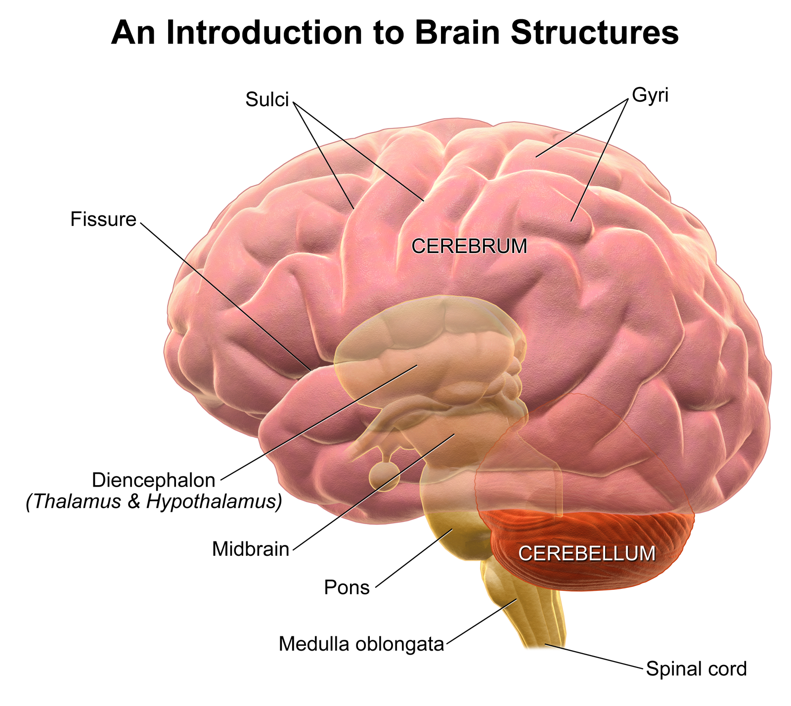 Introduction to Brain Structures. See a full animation of this medical topic and other brain structures.